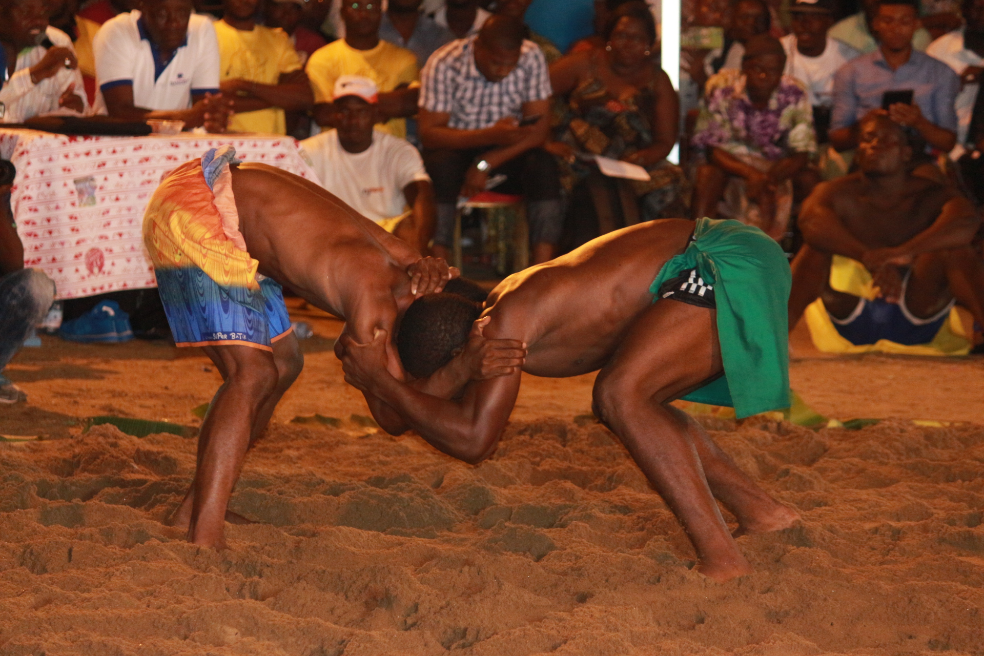 Lutteurs traditionnels pendant la cérémonie du Ngondo This is an image of "African people at work" from Cameroon